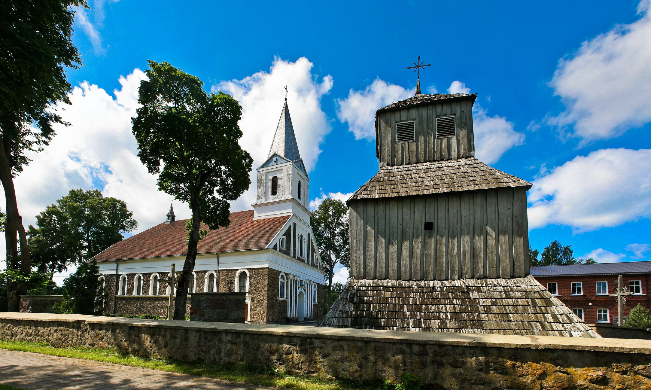 Church and belfry in Darbėnai, Lithuania